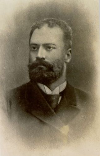 Andrej Ferjančič (1848-1927)